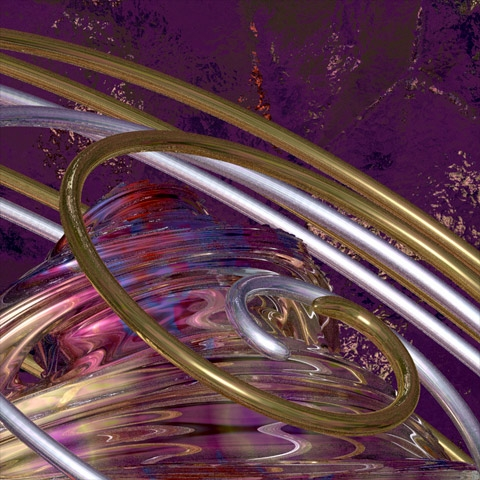 Detail of a computer-generated image programmed by Robert W. McGregor using POV-Ray 3.6 and its built-in scene description language. See more examples of this type of work at